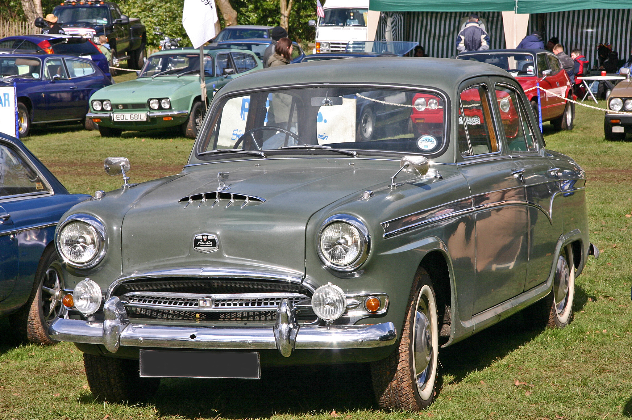 Austin A105 Vanden-Plas. In 1958 this special version of the Austin A105 Westminster was introduced with a luxury interior by coachbuilders Vanden-Plas. The success of this car inspired the later A110 based Farina Vanden-Plas Princess